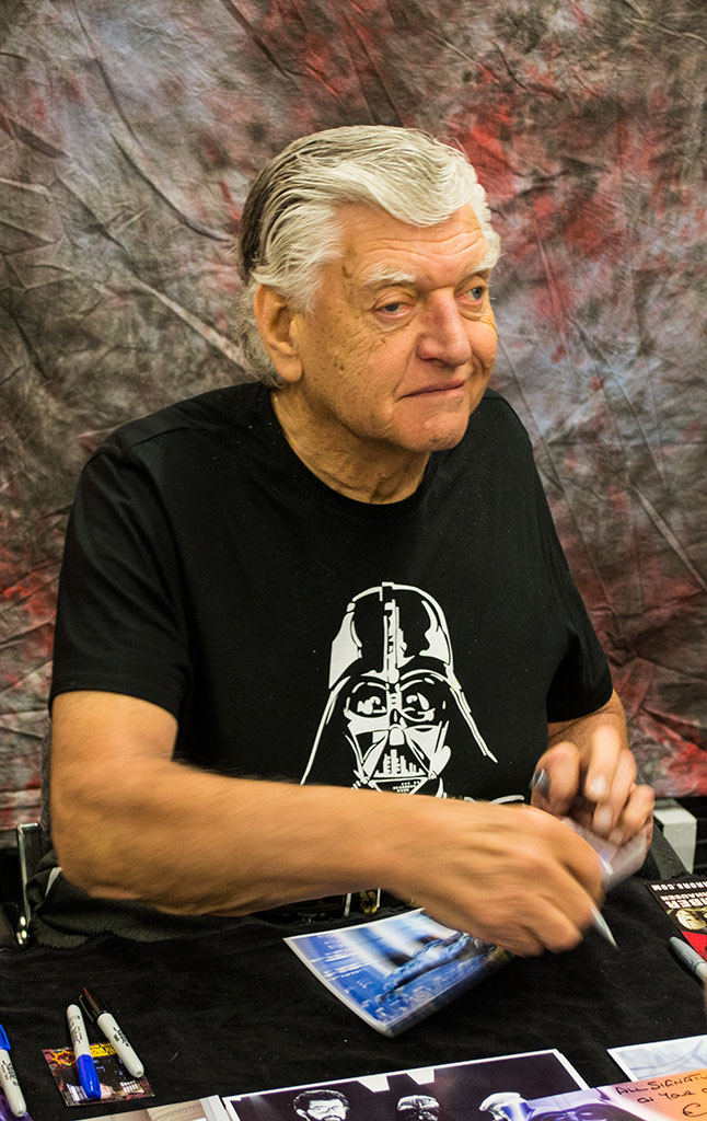 David Prowse (the actor wearing Darth Vaders costume in the original STAR WARS-Trilogy) at RolePlay Convention Germany, June 2013 in Cologne